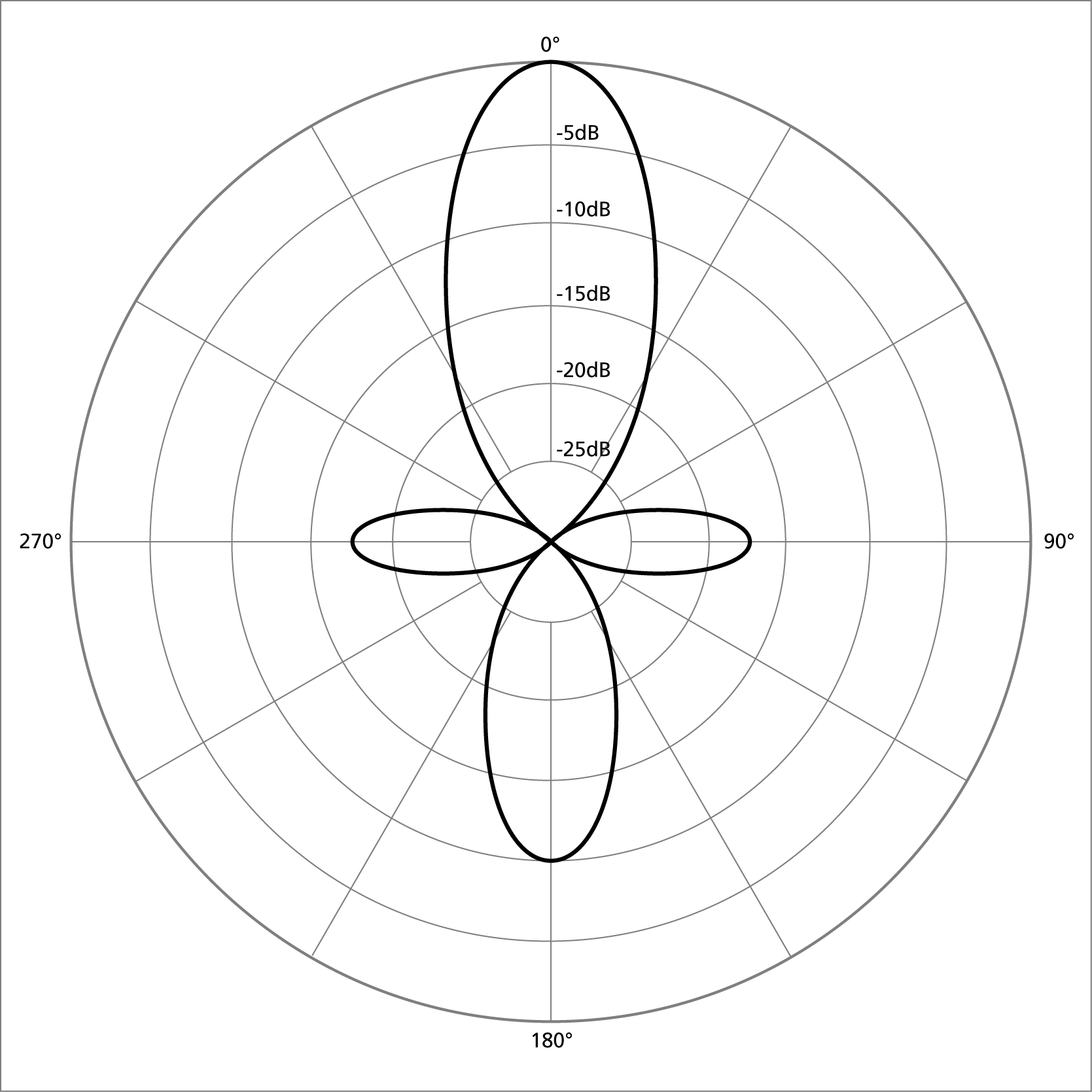 logarithmic polar pattern of directional / "shotgun" characteristics